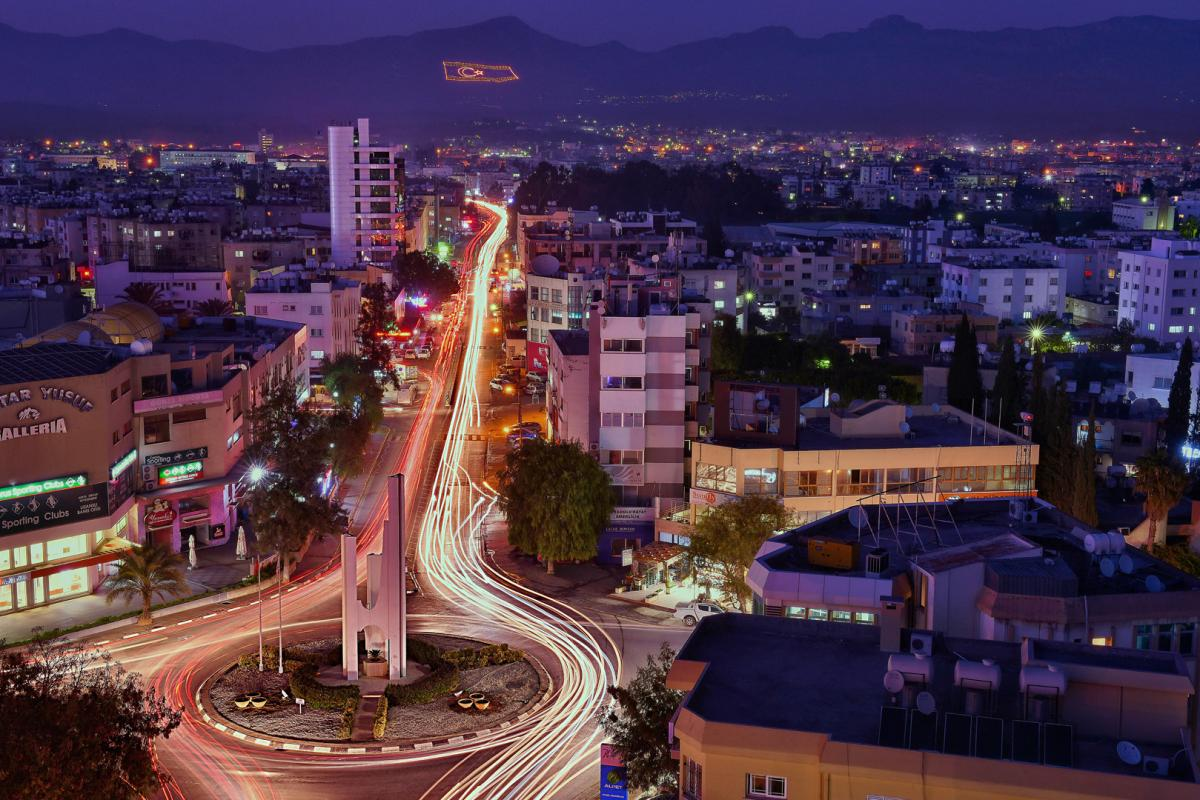 Night at Yenişehir, Nicosia